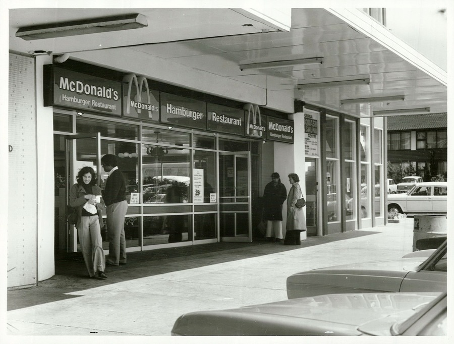 On 15 May 1940 the world’s first McDonald’s restaurant was opened in San Bernadino, California, by brothers Richard and Maurice McDonald. The restaurant originally had 25 menu items and used ‘carhops’ to serve customers in their vehicles. Later in the decade the brothers reorganised their business as a hamburger stand using production line principles. The company was franchised in the 1950s, and went on to quickly spread throughout the United States and the rest of the world. Today the restaurant chain has more than 36,000 outlets in 119 countries and is one of the most recognisable brands on the planet. In June 1976 the first McDonald’s restaurant opened in New Zealand, in Porirua near Wellington. However, there had been some hesitancy when the idea was proposed by two New Zealand businessmen about expanding the franchise to New Zealand, owing to the small local population. The brothers then negotiated a deal with the corporation by selling New Zealand cheese to the US to offset the high costs of importing plant equipment. The Porirua franchise was much more successful than the corporation predicted, and today there are approximately 167 outlets in New Zealand. This photograph of the first Porirua McDonald’s Restaurant was taken by P. Martin in September 1976, and comes from the collection of National Publicity studios. Archives reference: AAQT 6539 W3537 166/ B10817 For updates on our On This Day series and news from Archives New Zealand, follow us on Twitter Material from Archives New Zealand